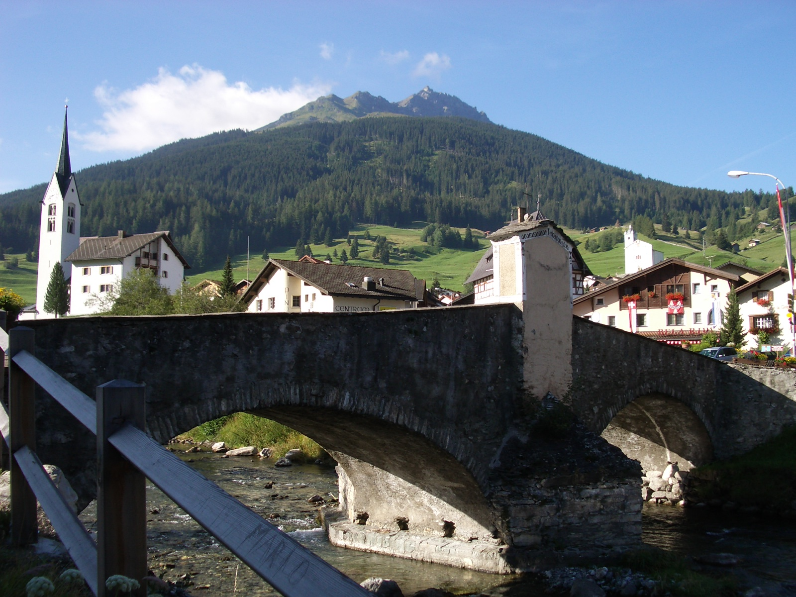 The bridge "Punt Crap" in Savognin GR, Switzerland. In the background the Piz Arlos (2696 metres).